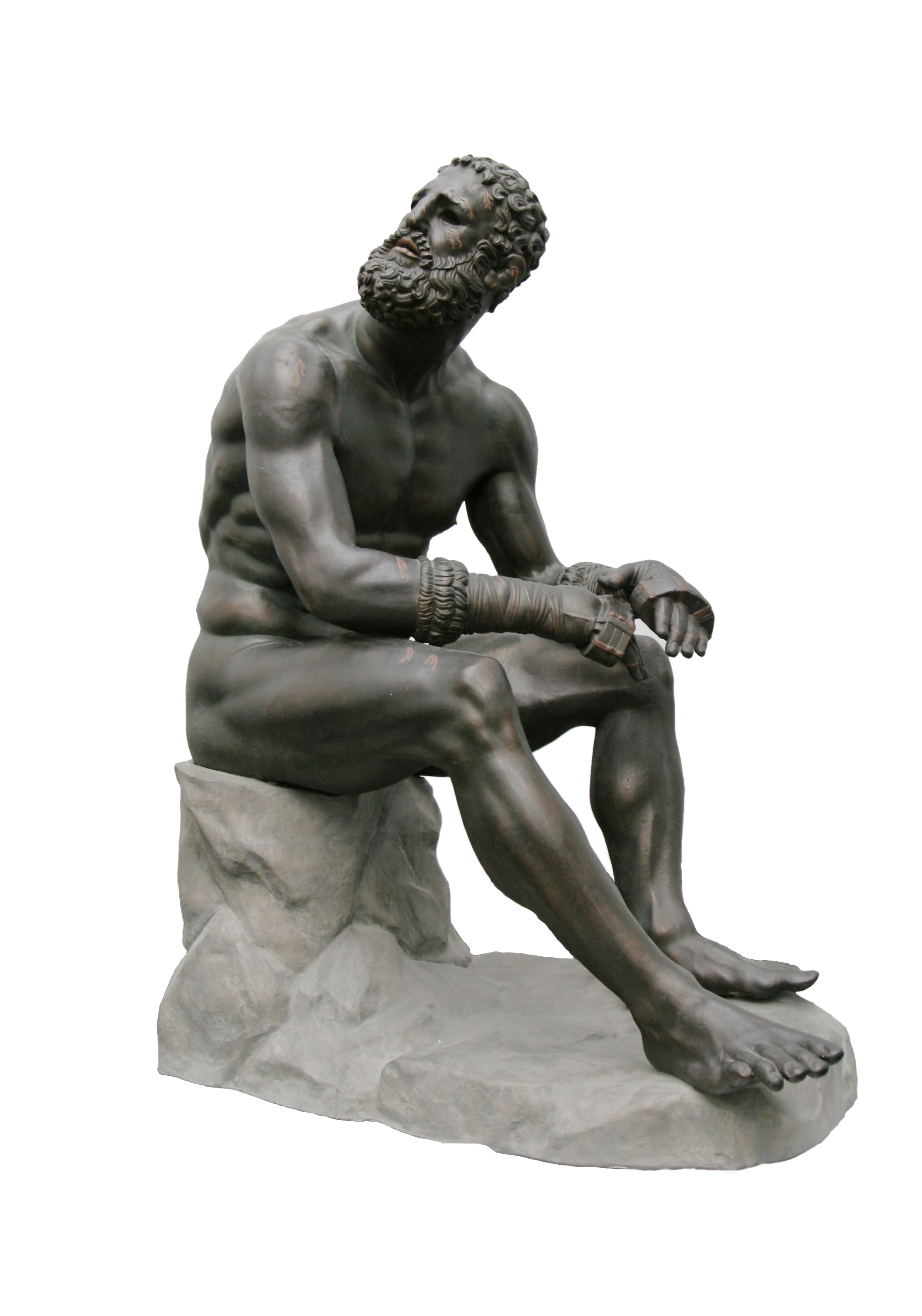 Modern copy of the Boxer of Quirinal a greek bronze statue from the 1 century b.C. Photographed during a exihibition "Der Kampf um den Lorbeer" in Antikensammlung München. Alternate views : head, hands